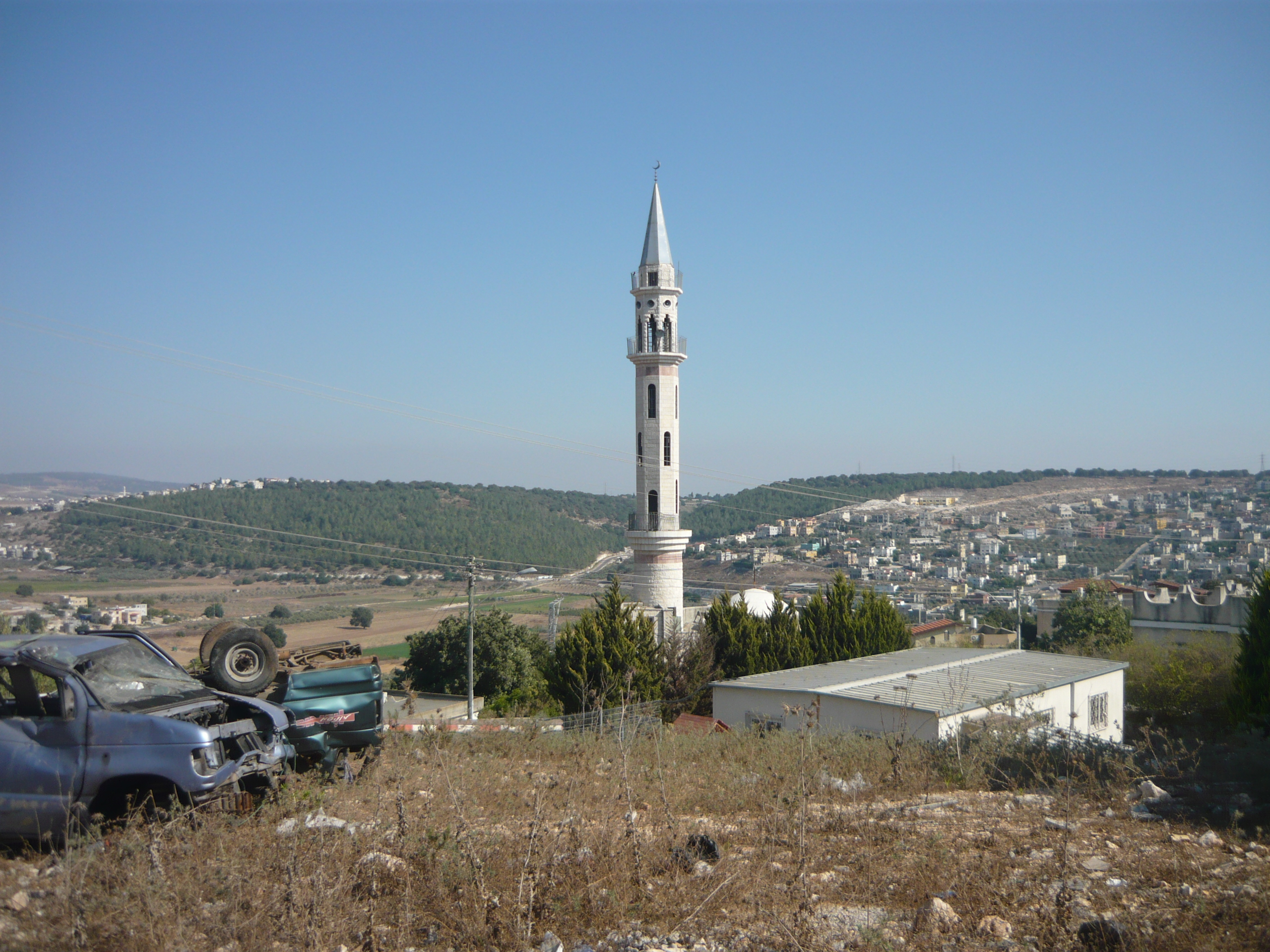 kaabiya כעבייה צפון